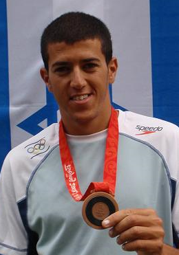 Cropped image of the Israeli windsurfer